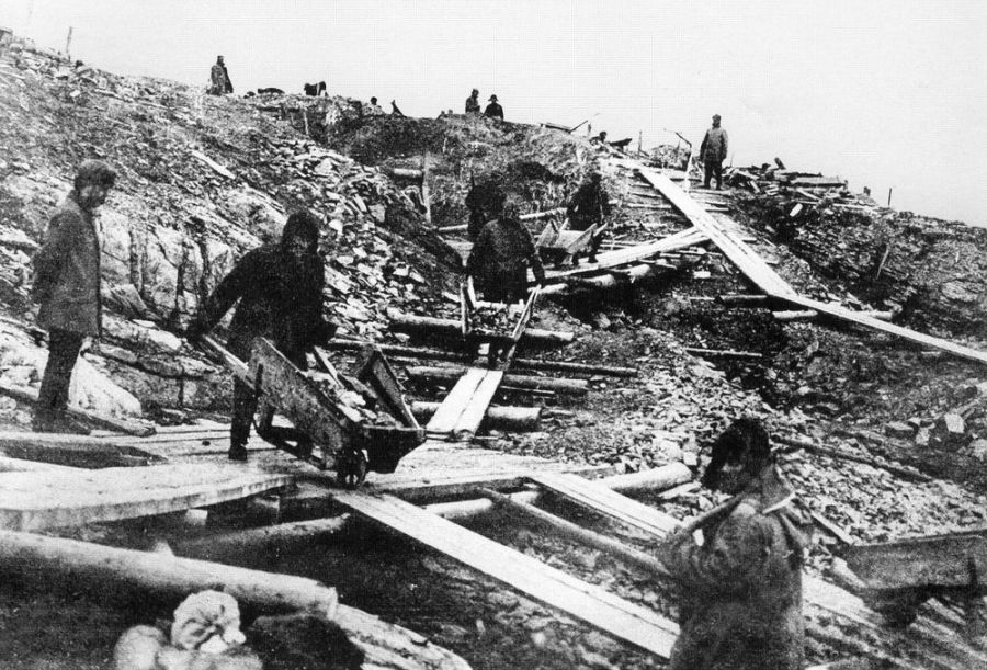 Transportation of lead-zinc ore on the peninsula cape razdelny on vaygach island during the vaygach-expedition of OGPU.